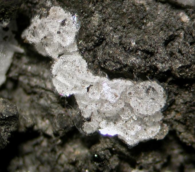 Ravatite (picture width: 45 mm) Locality: Halde Anna, Alsdorf, North Rhine-Westphalia, Germany